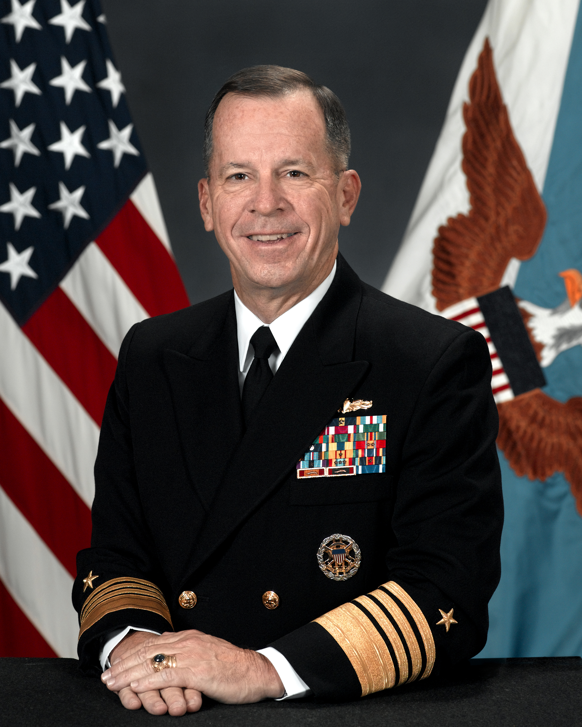 United States Navy Admiral Michael G. Mullen, 17th Chairman of the Joint Chiefs of Staff.